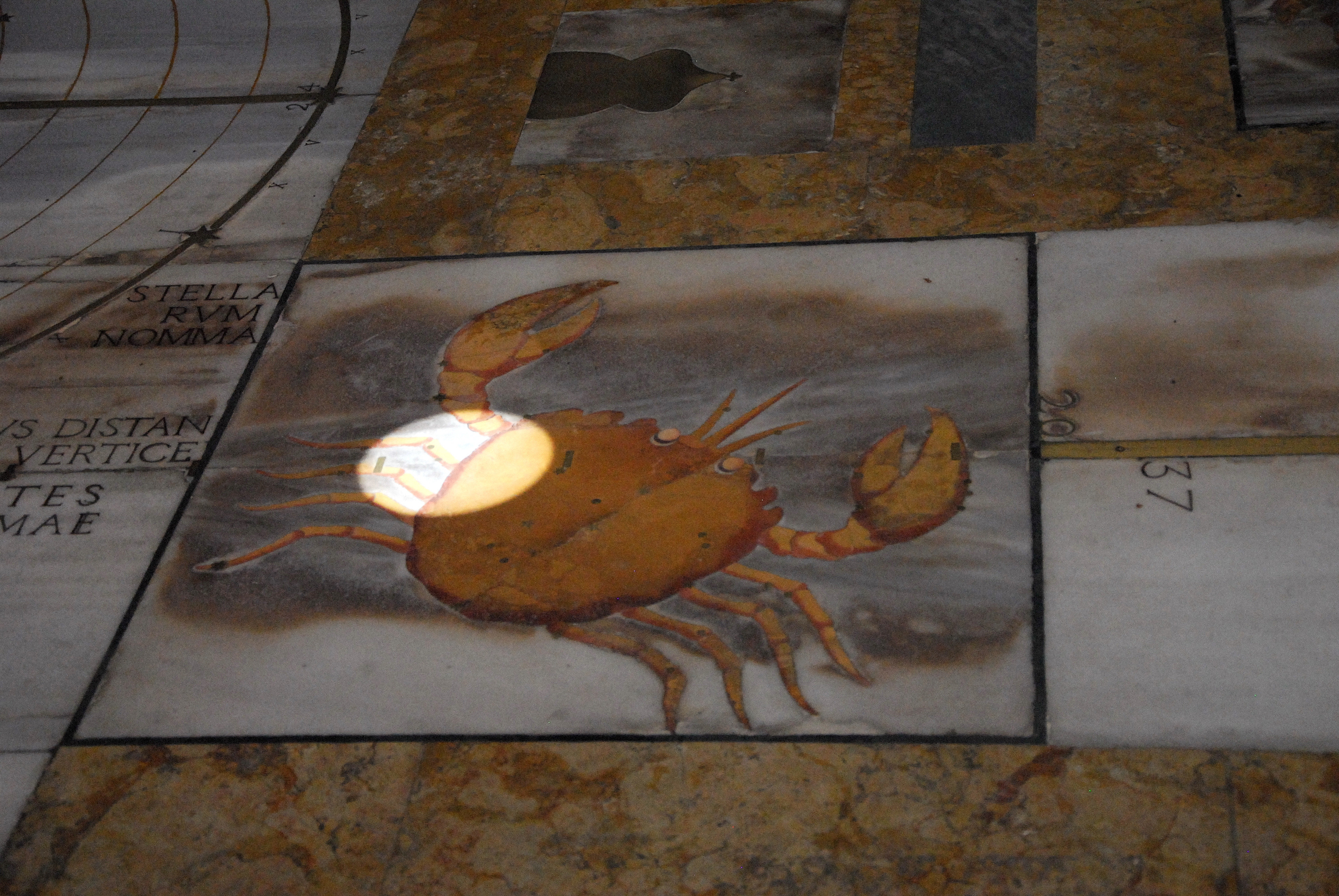 S.Maria degli Angeli sundial in Rome: summer solstice on June 21 2013.